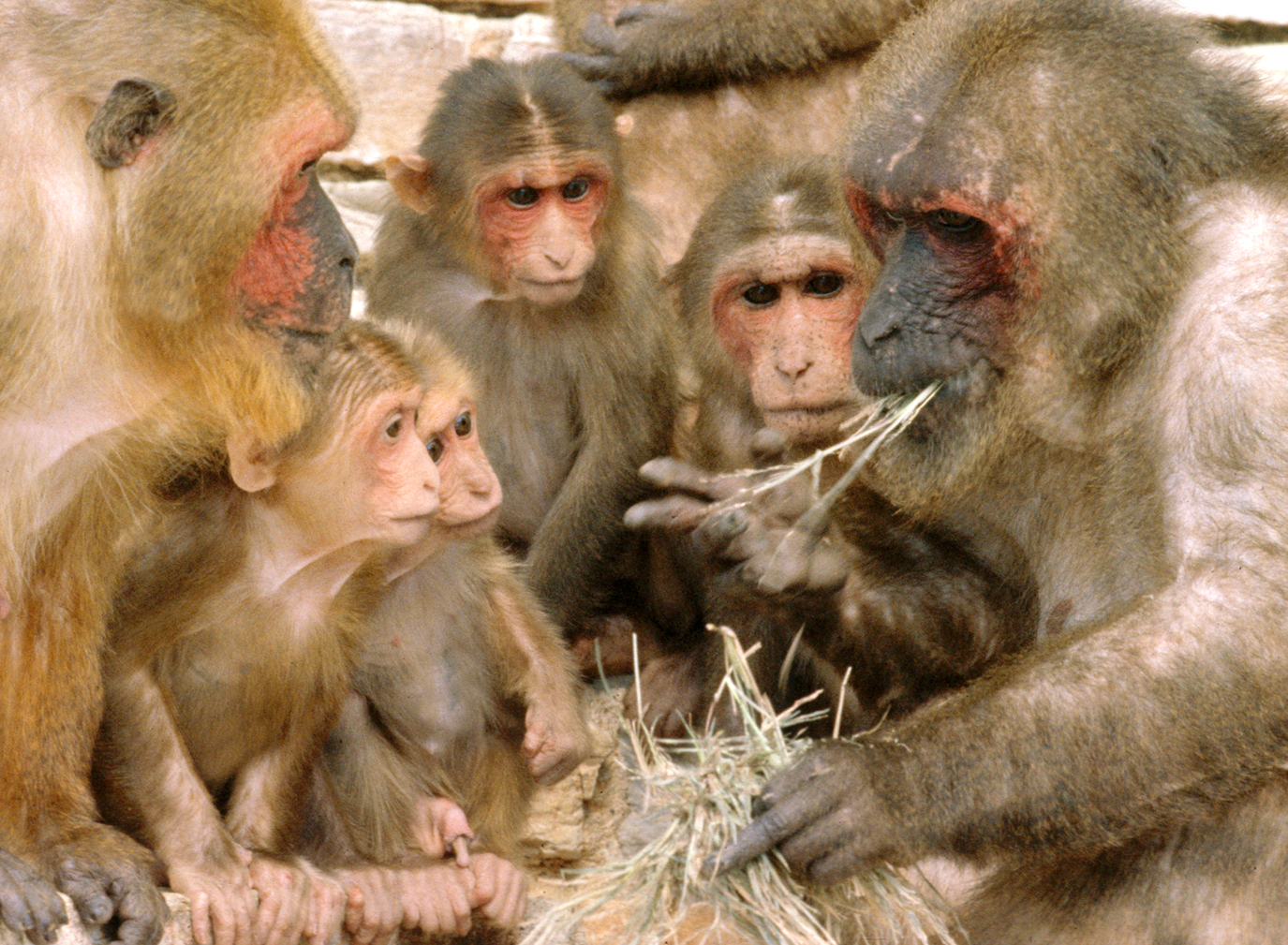 Stumptail Monkeys. Stumptail monkeys (Macaca arctoides) are among the most conciliatory members of the genus Macaca. They are heavily built, yet remarkably friendly and tolerant, such as here: the alpha male is eating attractive food unperturbed by an entire audience around him. When stumptail monkeys were housed with a less tolerant macaque, they modified the latter species' behavior into a more pacific direction.